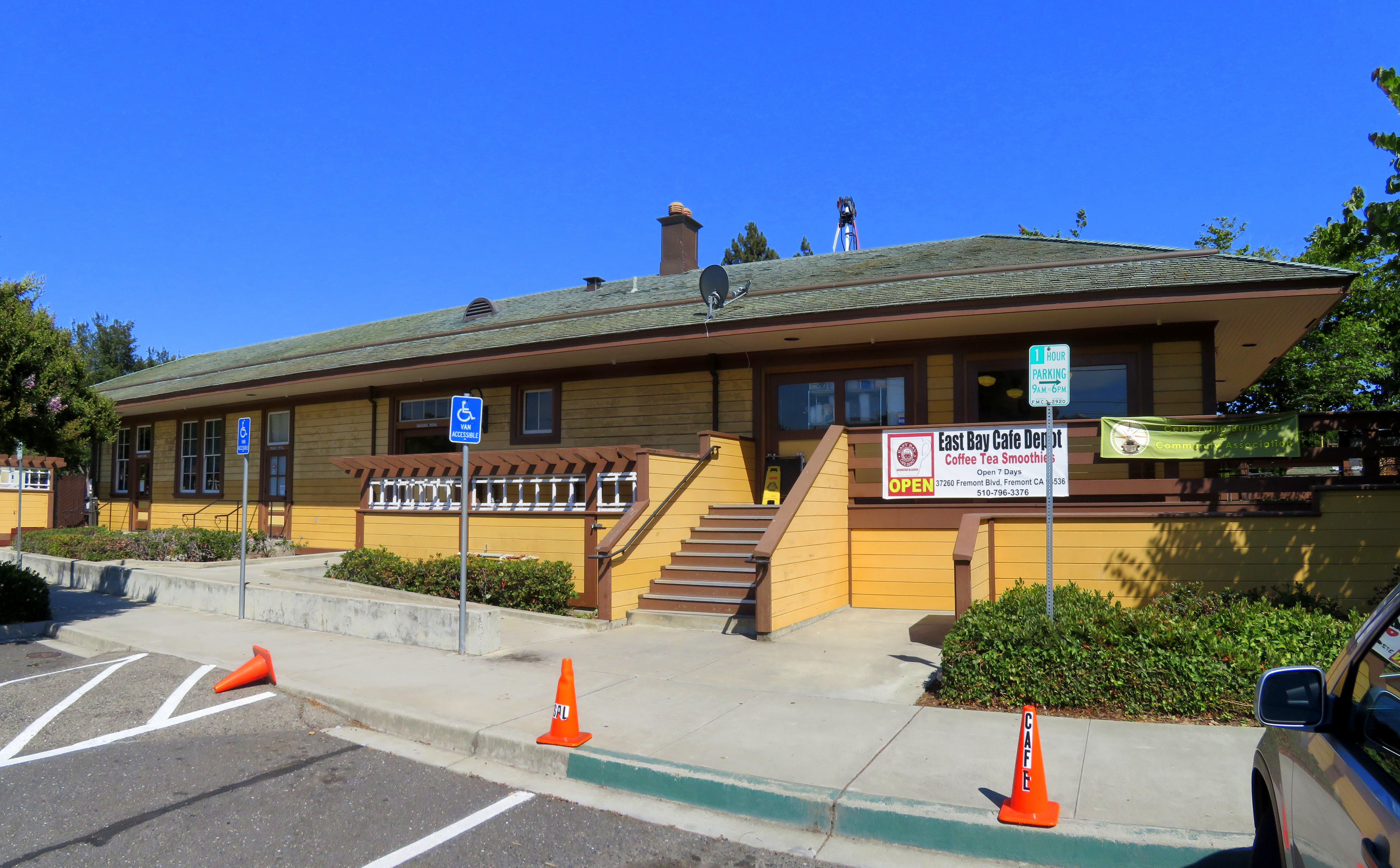 Fremont-Centerville station in July 2018